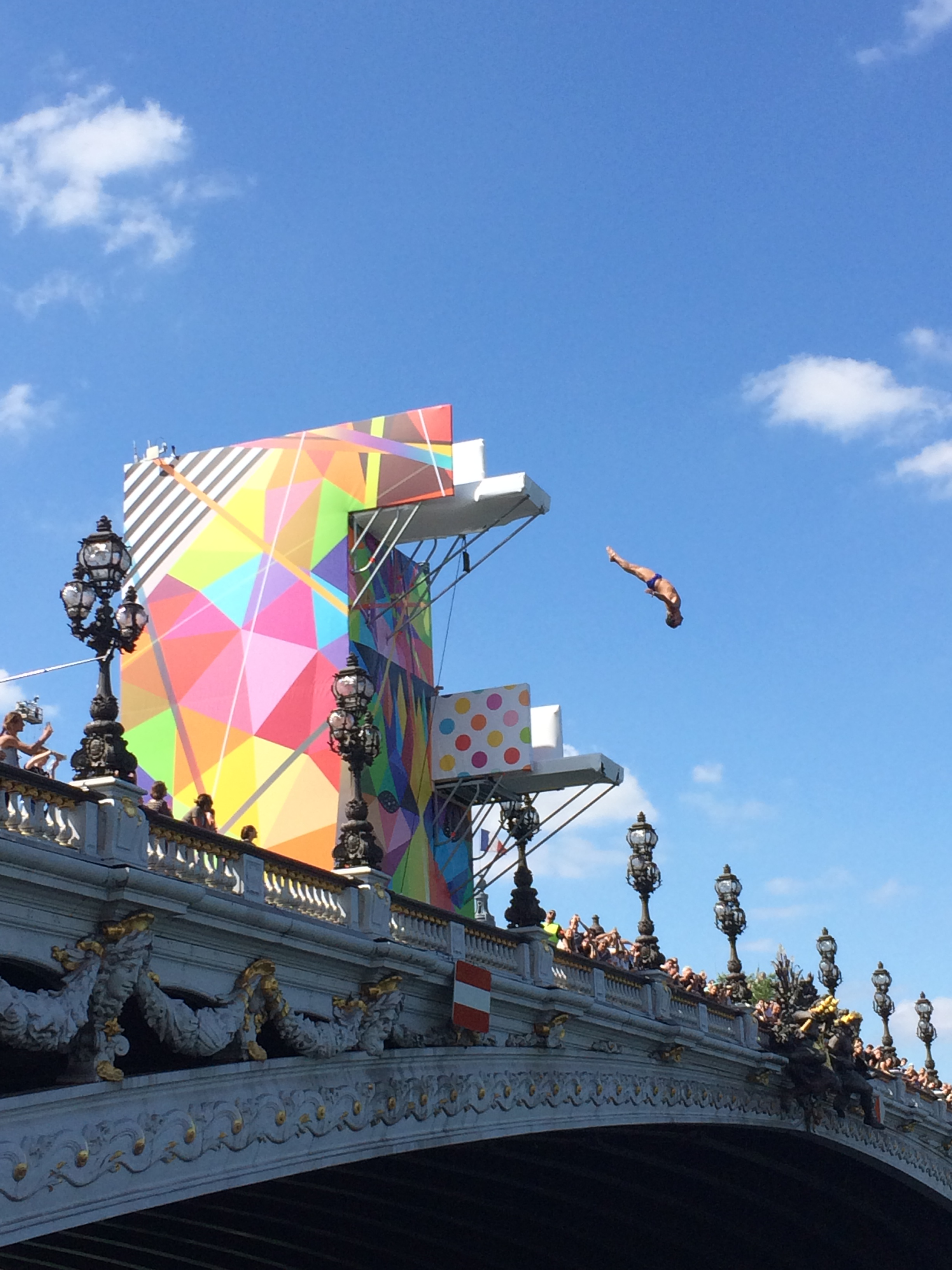 Dive from the pont Alexandre III during Olympic Days in Paris.